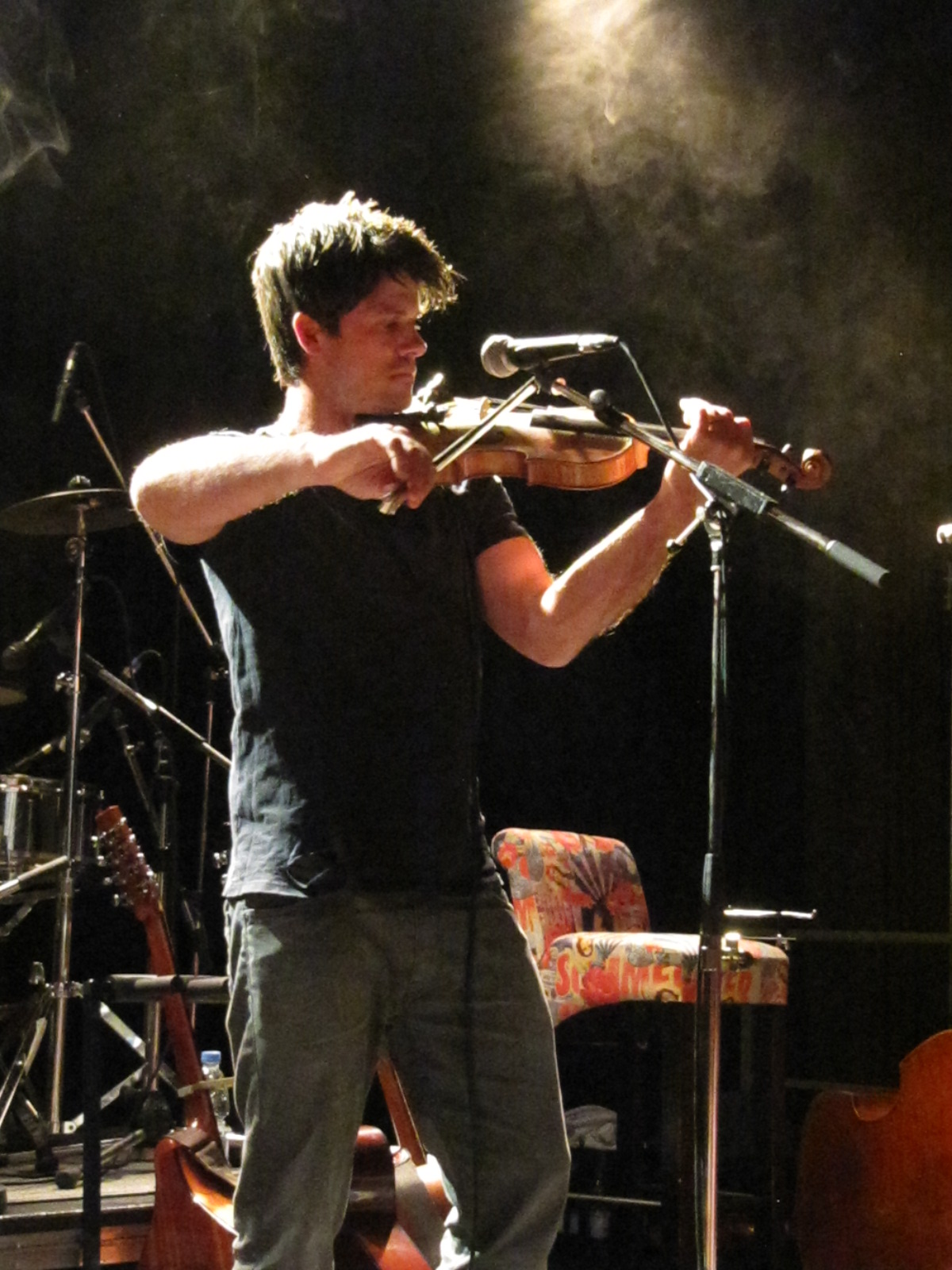 Seth Lakeman performing at the clubCANN, Stuttgart, in 2014